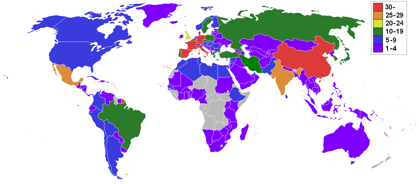 UNESCO World Heritage Site: Cultural sites by state